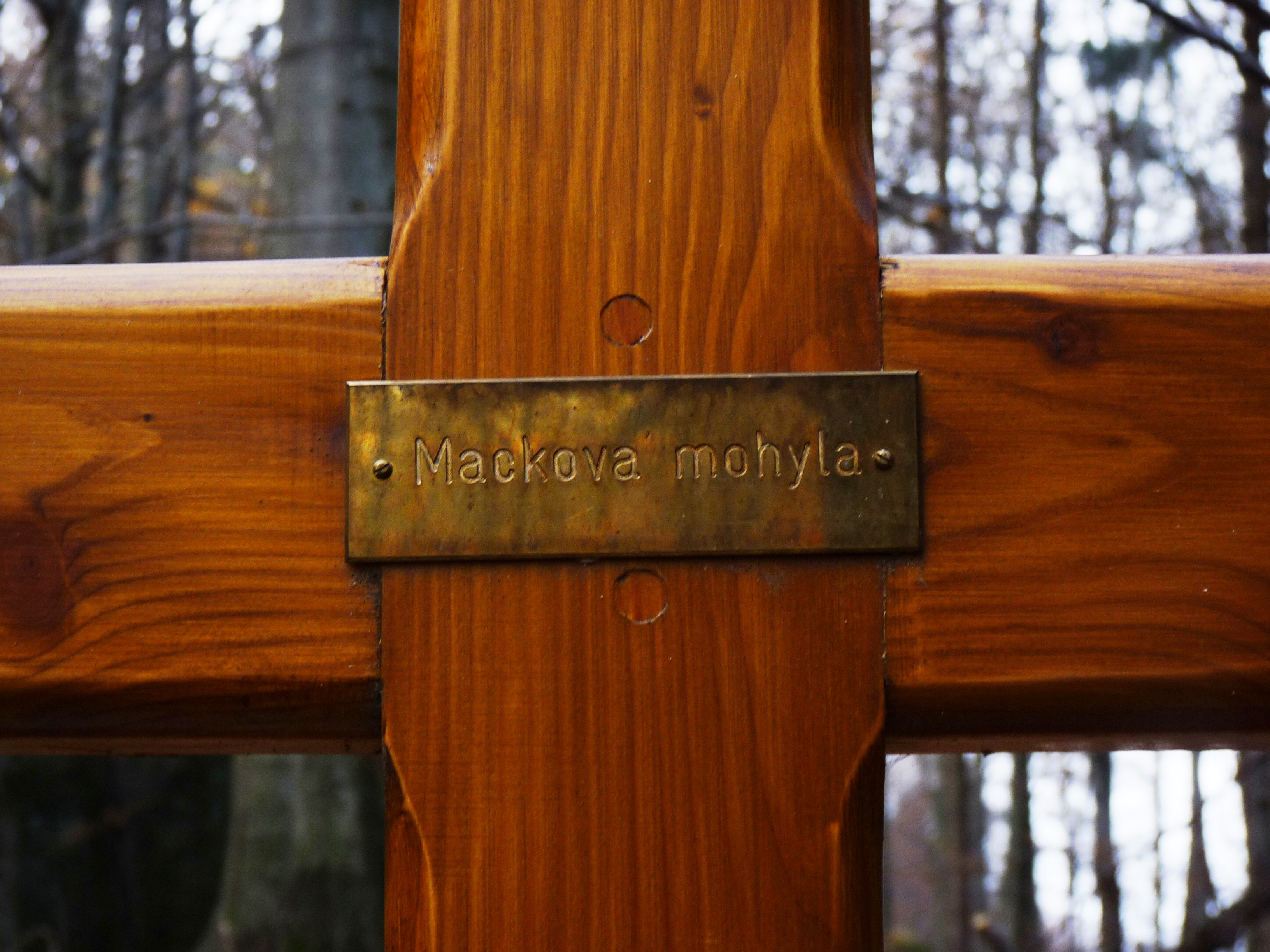 Mackova mohyla - detail